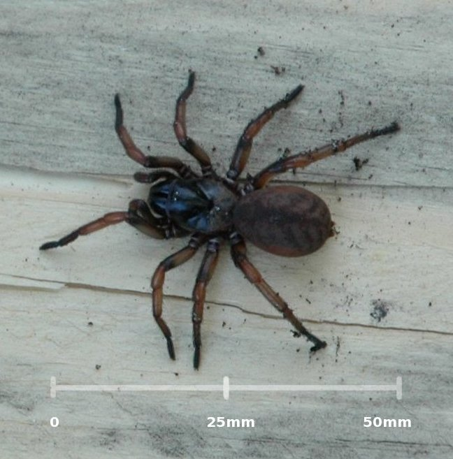 Melbourne Trapdoor Spider: Location: found in moist soil (sandy loam) at Carnegie, Melbourne, Victoria, Australia. Identification referenced from Museum Victoria